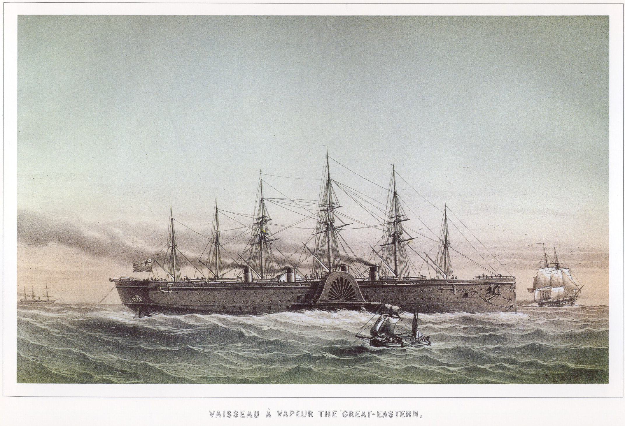 Steamer Great Eastern